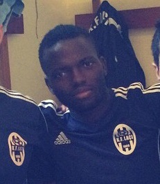 James Segun Adeniyi with Albanian club KF Laçi.